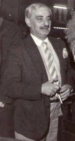 Guillermo Nimo- periodista deportivo y actor argentino